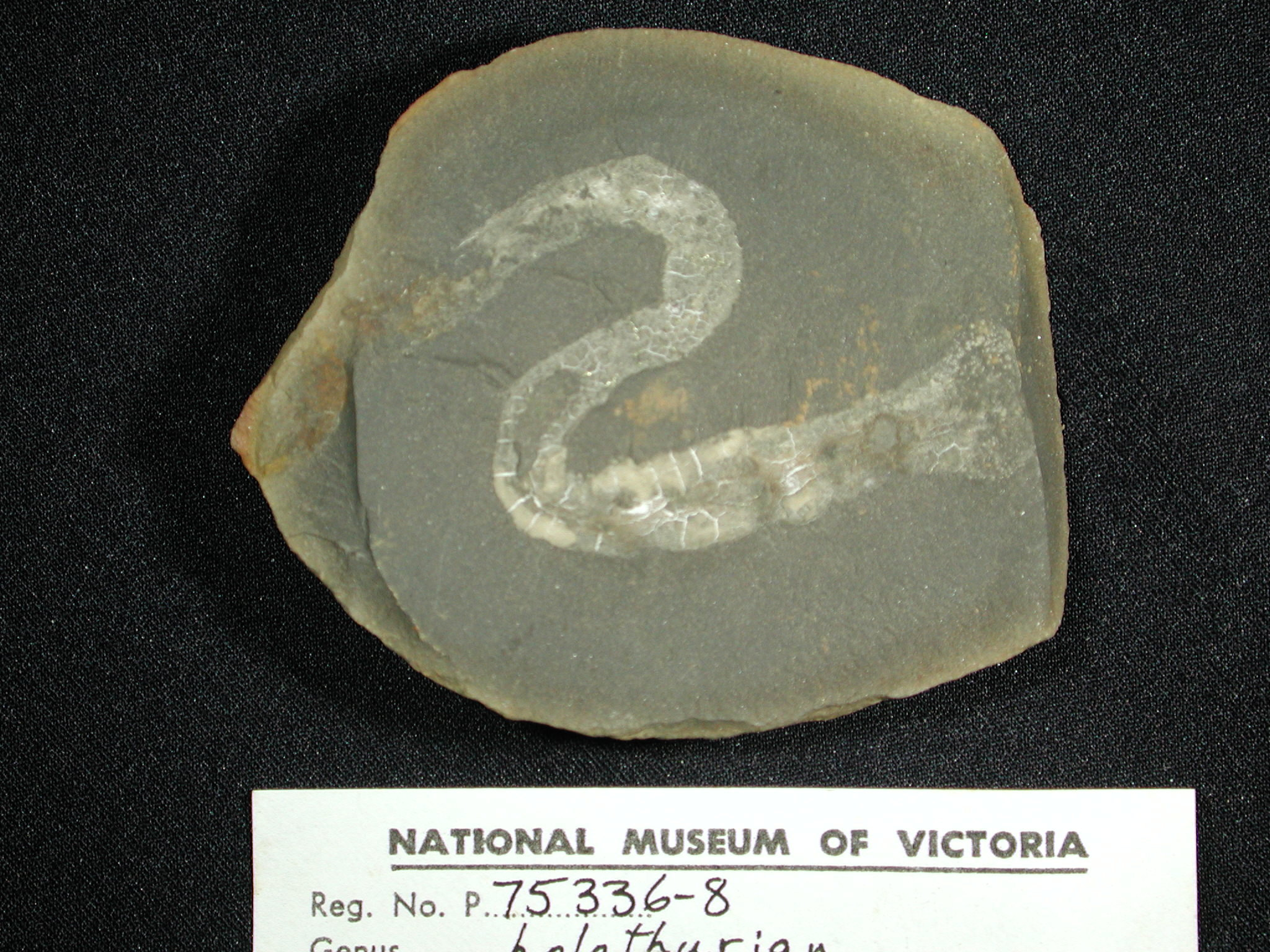 Chiridotidae; fossil sea cucumber. Registration no. P 75336-1 Geospatial Information Continent : North America Country : United States of America State : Illinois District : Grundy County Town : Morris Era : Palaeozoic Period : Carboniferous Epoch : Pennsylvanian Stage : Moscovian Geological group : Kewanee Group Geological formation : Carbondale Formation Geological member : Francis Creek Shale